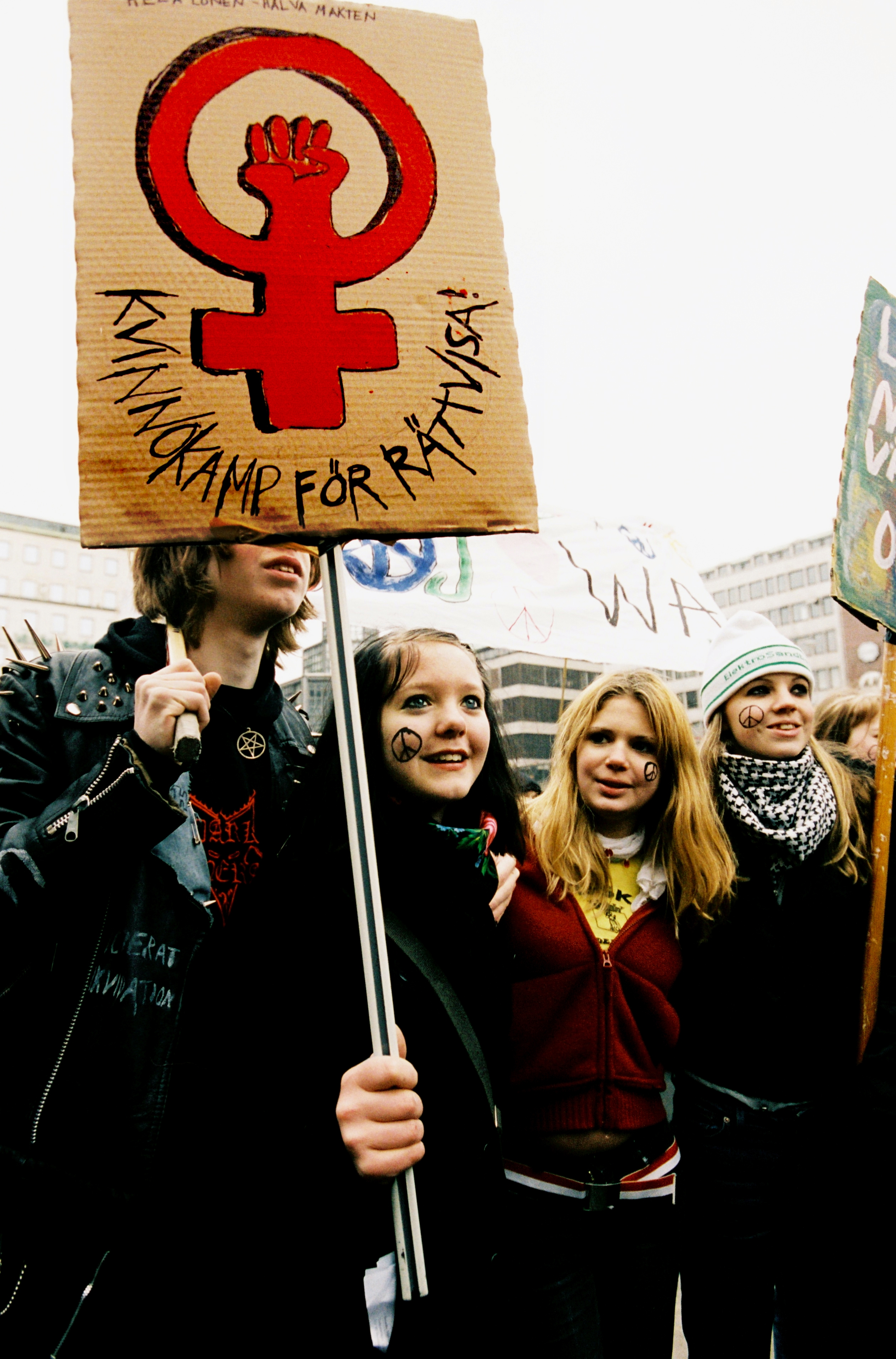 International Women's Day in Stockholm, Sweden 2012